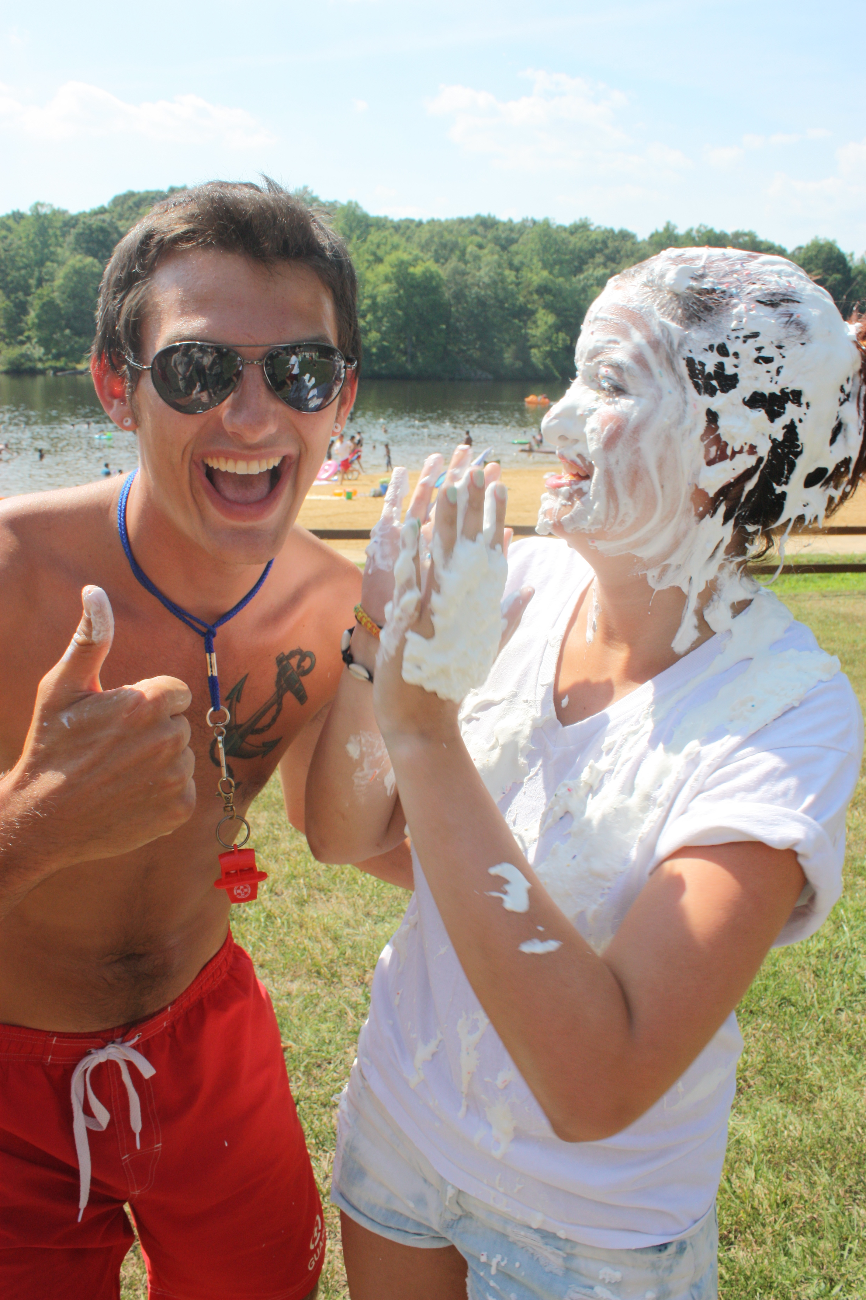 Twin Lakes has their annual Pie-A-Park Employee where park guests vote to see their favorite park staff get all messy. cmy